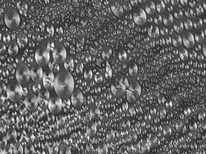 Brewster Angle Microscope picture of a phospholipid layer